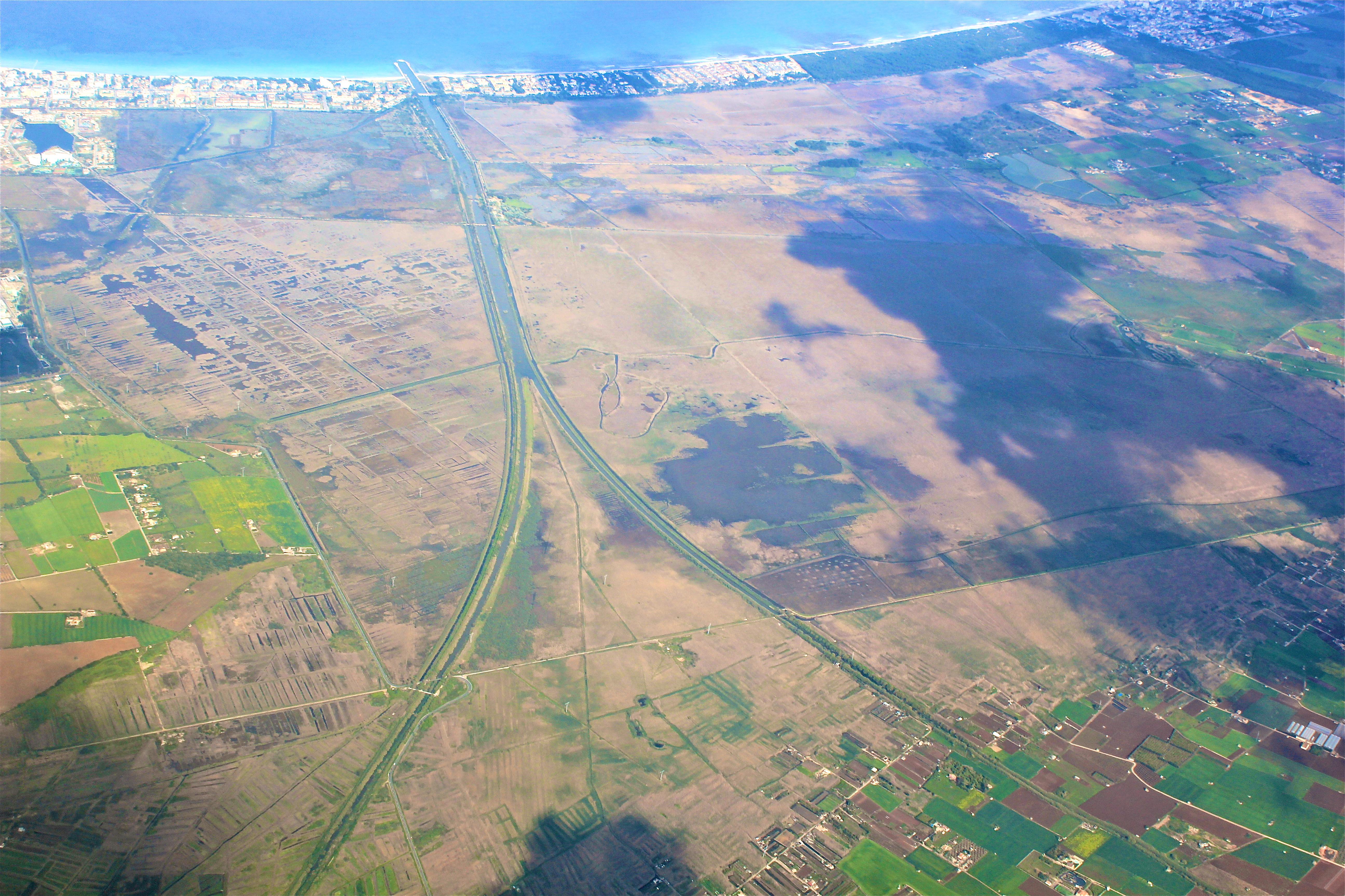 S'Albufera wetland aerial view